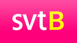 logo of the TV-channel SVT B 2008-2012